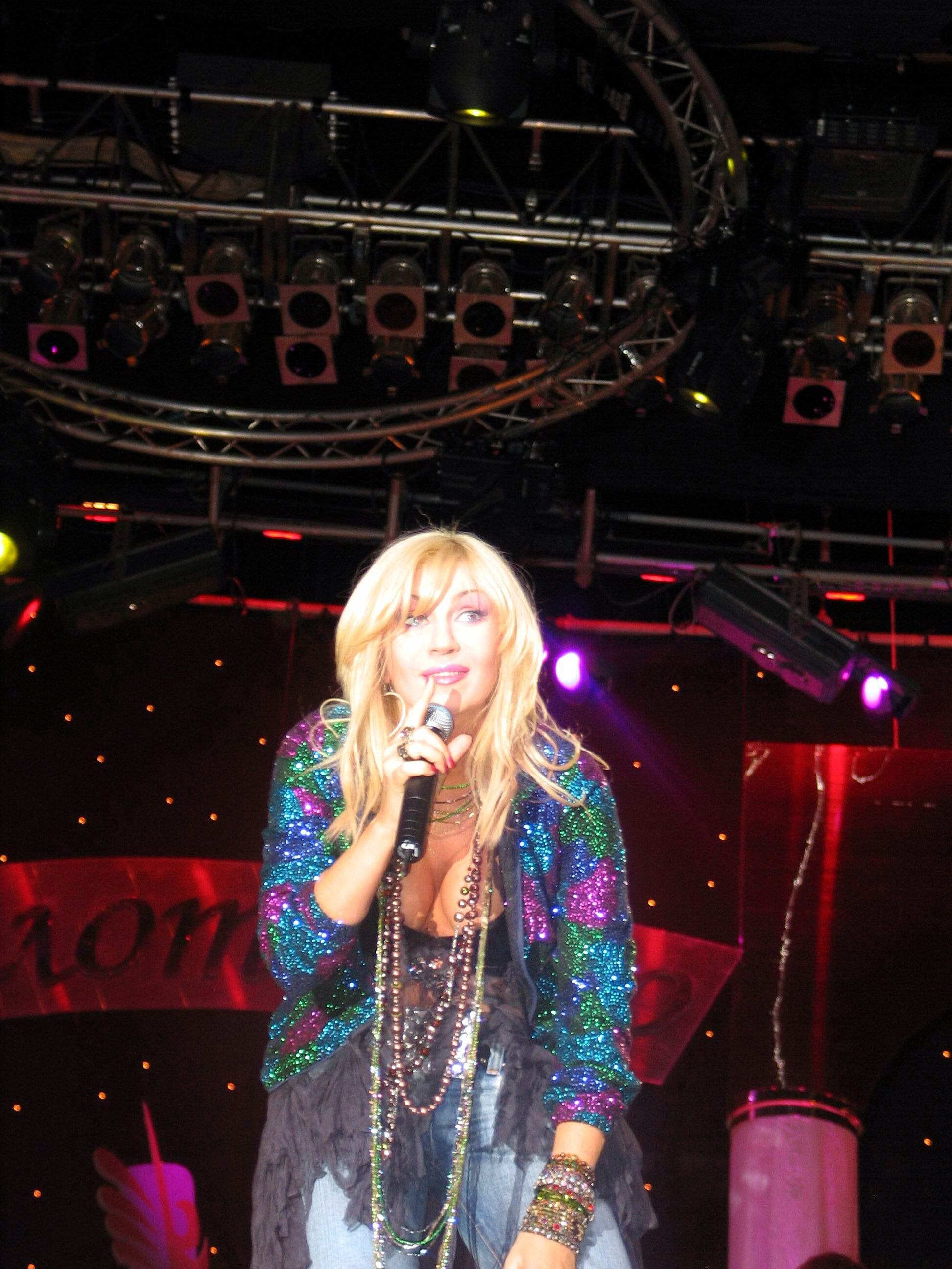 Iryna Bilyk